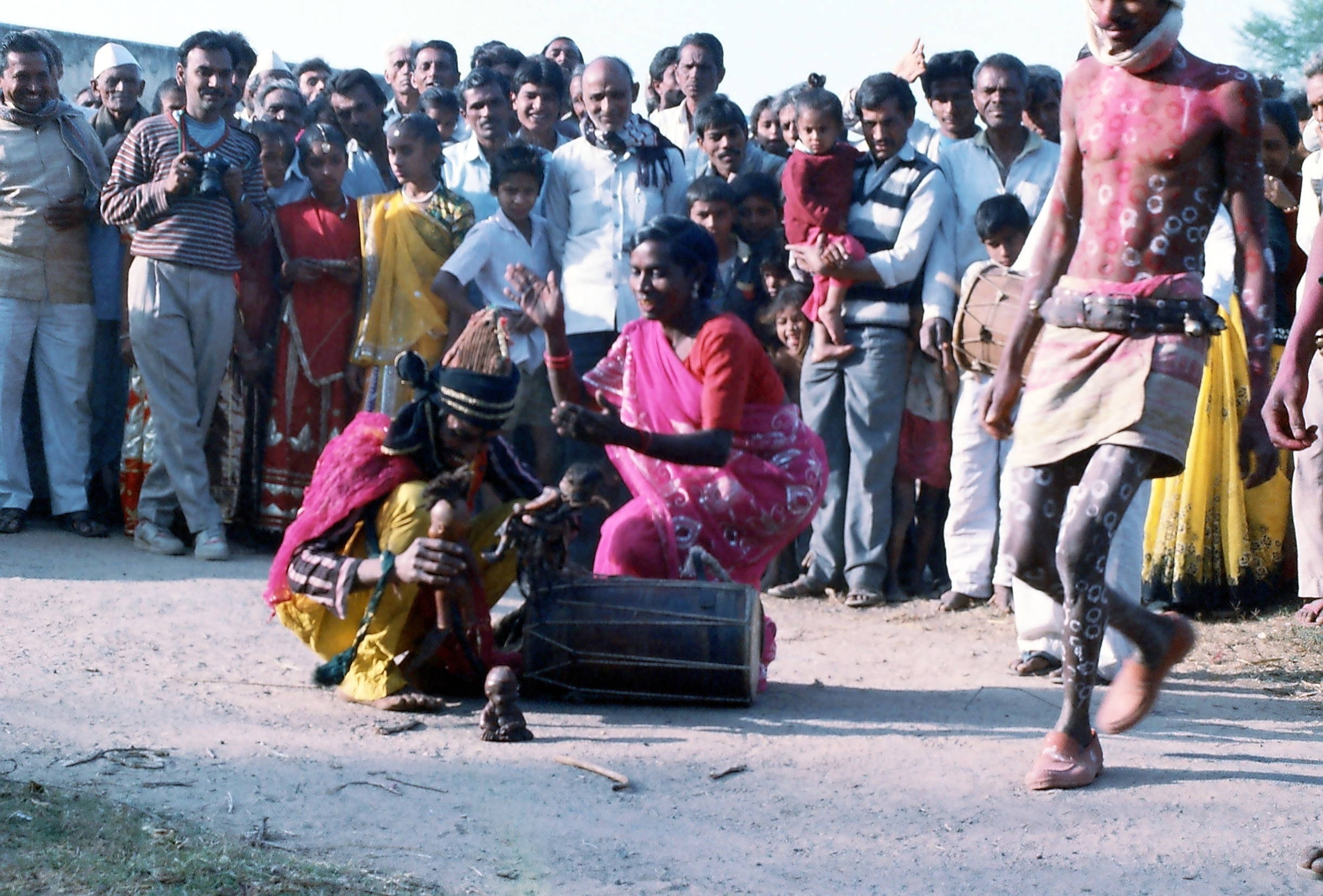 Traditional welcome performance, Mitral, Kheda district, Gujarat.jpg